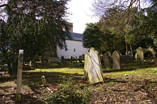 Churchyard, St Mary the Virgin, East Barnet, near to East Barnet, Barnet, Great Britain. Part of the churchyard of St Mary the Virgin, Church Hill Road.